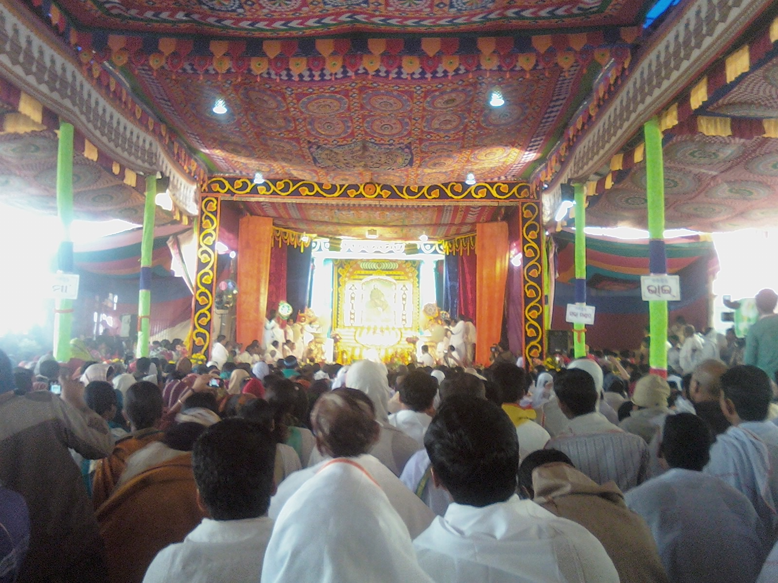 A major Devotees' congregation (Bhakta Sammilani No.61) held in village Biratunga by Swami Nigamananda followers in Feb-2012